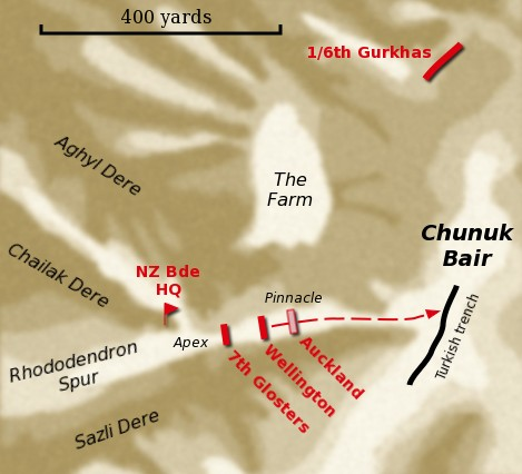 British and New Zealand battalion positions prior to the assault on Chunuk Bair on the morning of August 8, 1915, during the Battle of Chunuk Bair